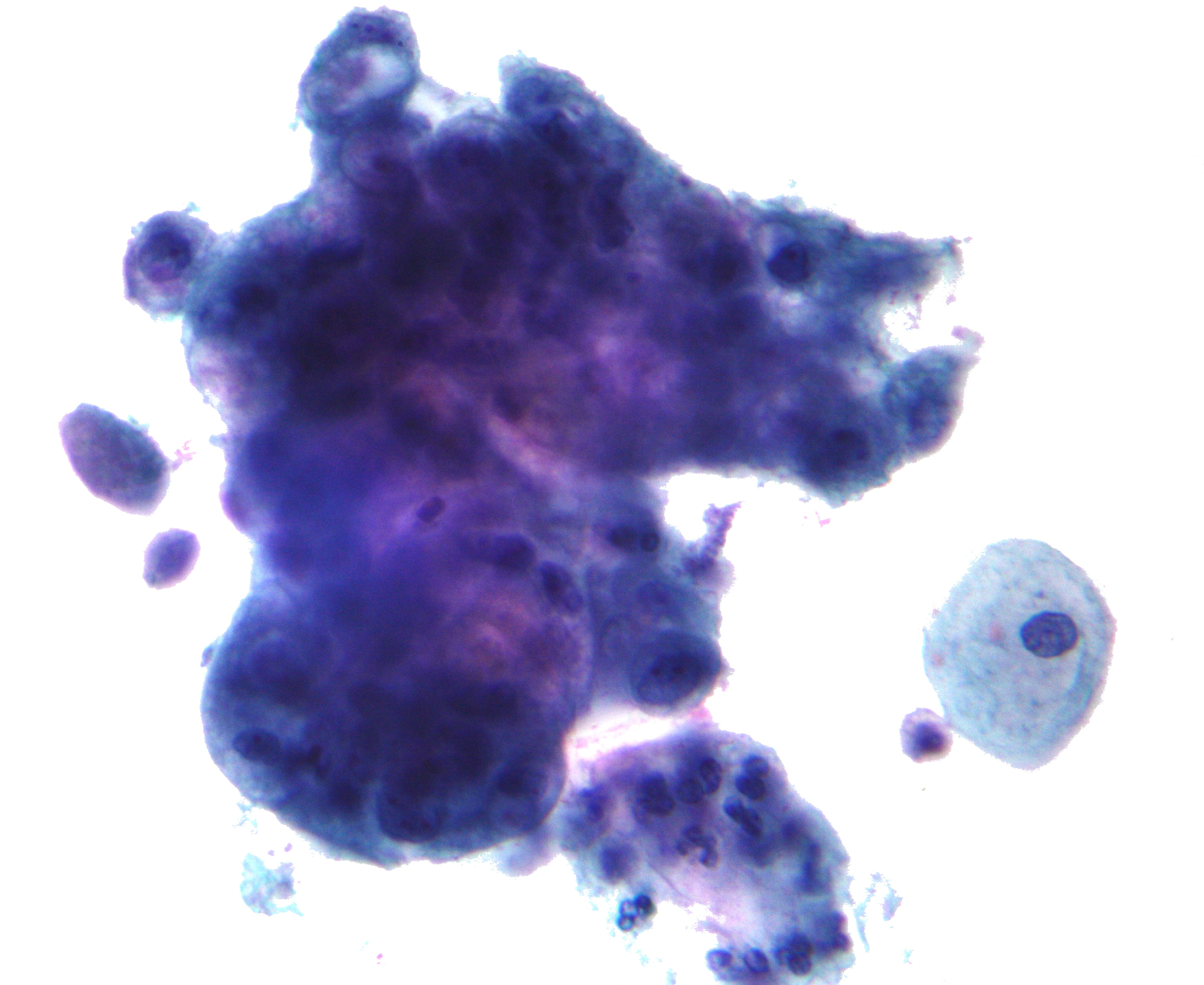 Micrograph showing adenocarcinoma found a Pap test. Pap stain. A normal intermediate (squamous) cell is seen on the right of the image. The malignant cells have prominent mucin filled intracytoplasmic vacuoles. The pictured adenocarcinoma was of endocervical origin - not apparent on the image. See also Image:Adenocarcinoma on pap test 1.jpg - same view different plane of focus. Other Pap test images: Image:High-grade squamous intraepithelial lesion.jpg - HSIL. Image:Low-grade squamous intraepithelial lesion.jpg - LSIL.